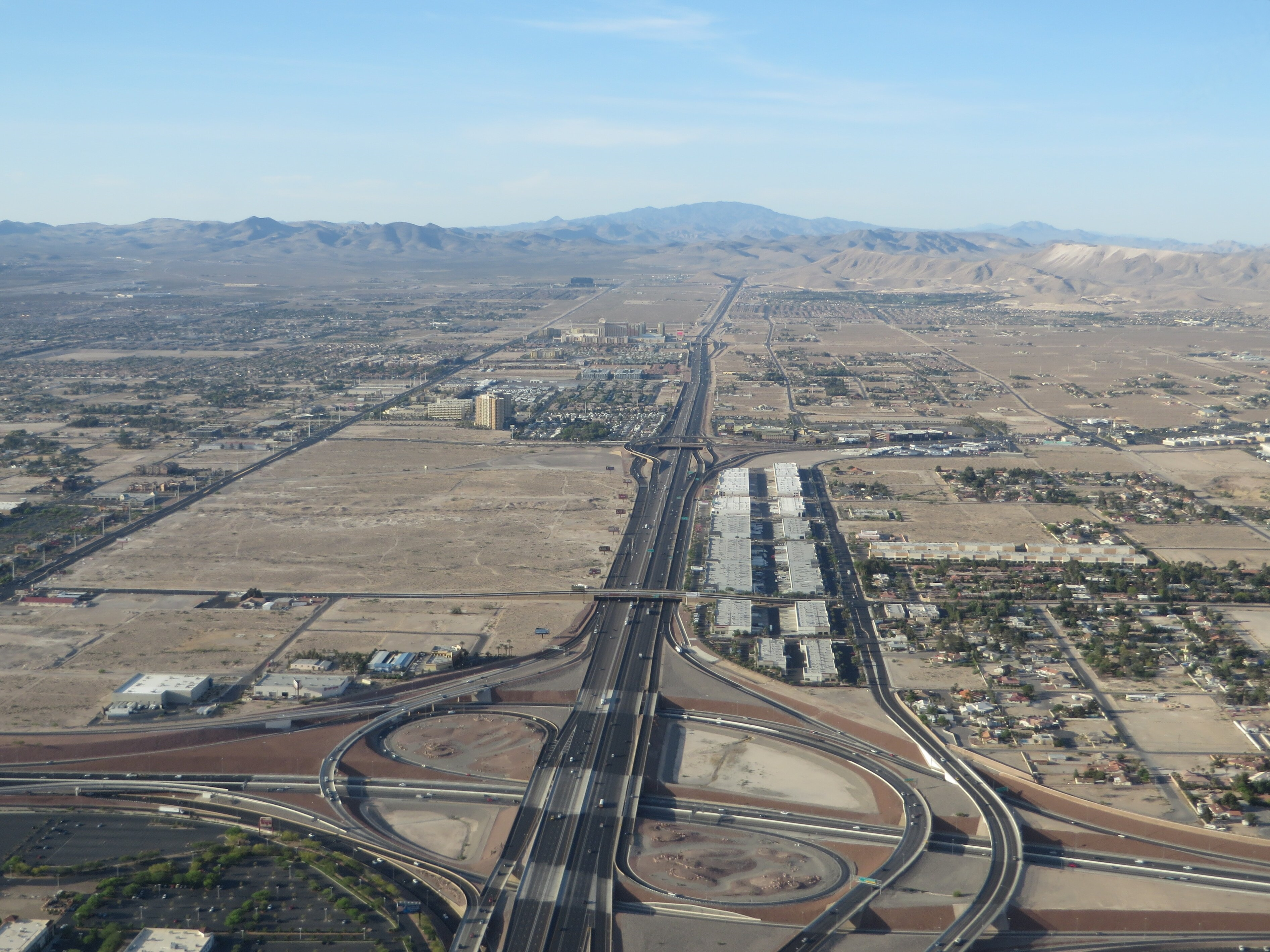 Las Vegas is the most populous city in the U.S. state of Nevada and the county seat of Clark County. Las Vegas is an internationally renowned major resort city for gambling, shopping, and fine dining. The city bills itself as The Entertainment Capital of the World, and is famous for its consolidated casino–hotels and associated entertainment. A growing retirement and family city, Las Vegas is the 31st-most populous city in the United States, with a population at the 2010 census of 583,756. The 2010 population of the Las Vegas metropolitan area was 1,951,269.